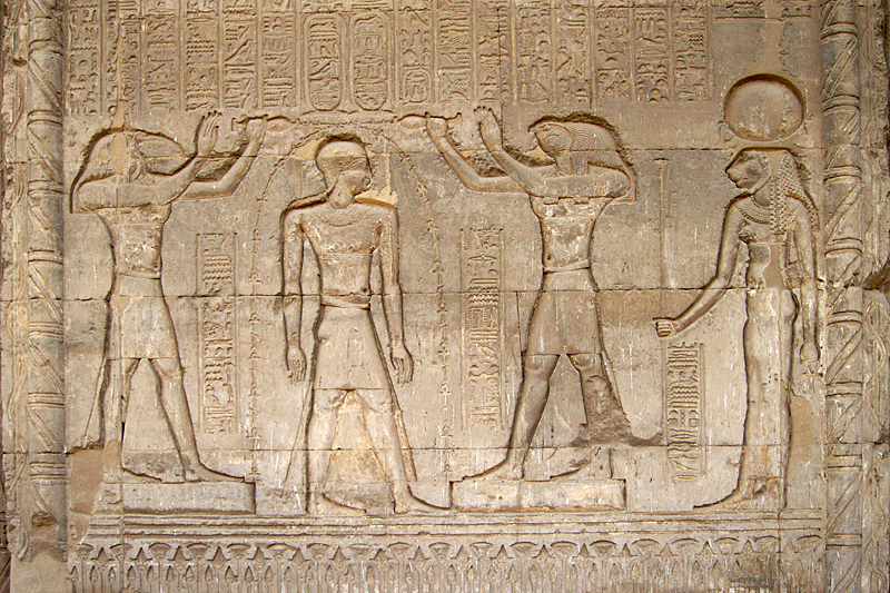 Emperor Claudius purified by Thoth and Harsiese, second intercolumnar wall, Temple of Khnum, Esna, Egypt